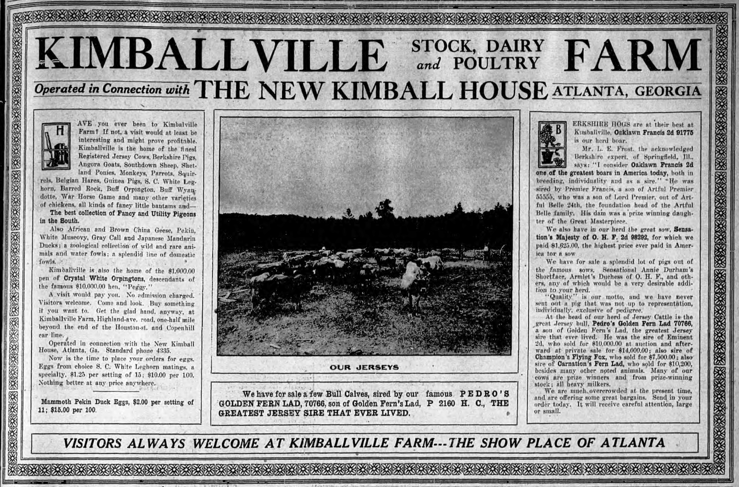 Kimballville Farm ad in Atlanta Georgian and News April 10, 1909